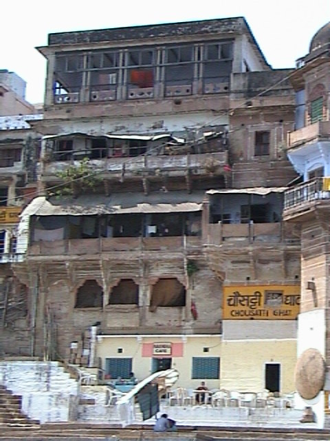 Hindu culture, have attributed supreme importance to the preservation of tradition Classical civilizations, and especially the Indian one, have attributed supreme importance to the preservation of tradition. Its central idea was that social institutions, scientific knowledge and technological applications need to use "heritage" as a "resource". Using contemporary language, we would say that ancient Indians considered, as social resources, both economic assets (like natural resources and their exploitation structure) and factors promoting social integration (like institutions for preserving knowledge and maintaining civil order). Ethics considered that what had been inherited should not be consumed, but should be handed over, possibly enriched, to successive generations. This was a moral imperative for all, except in the final life stage of sannyasa